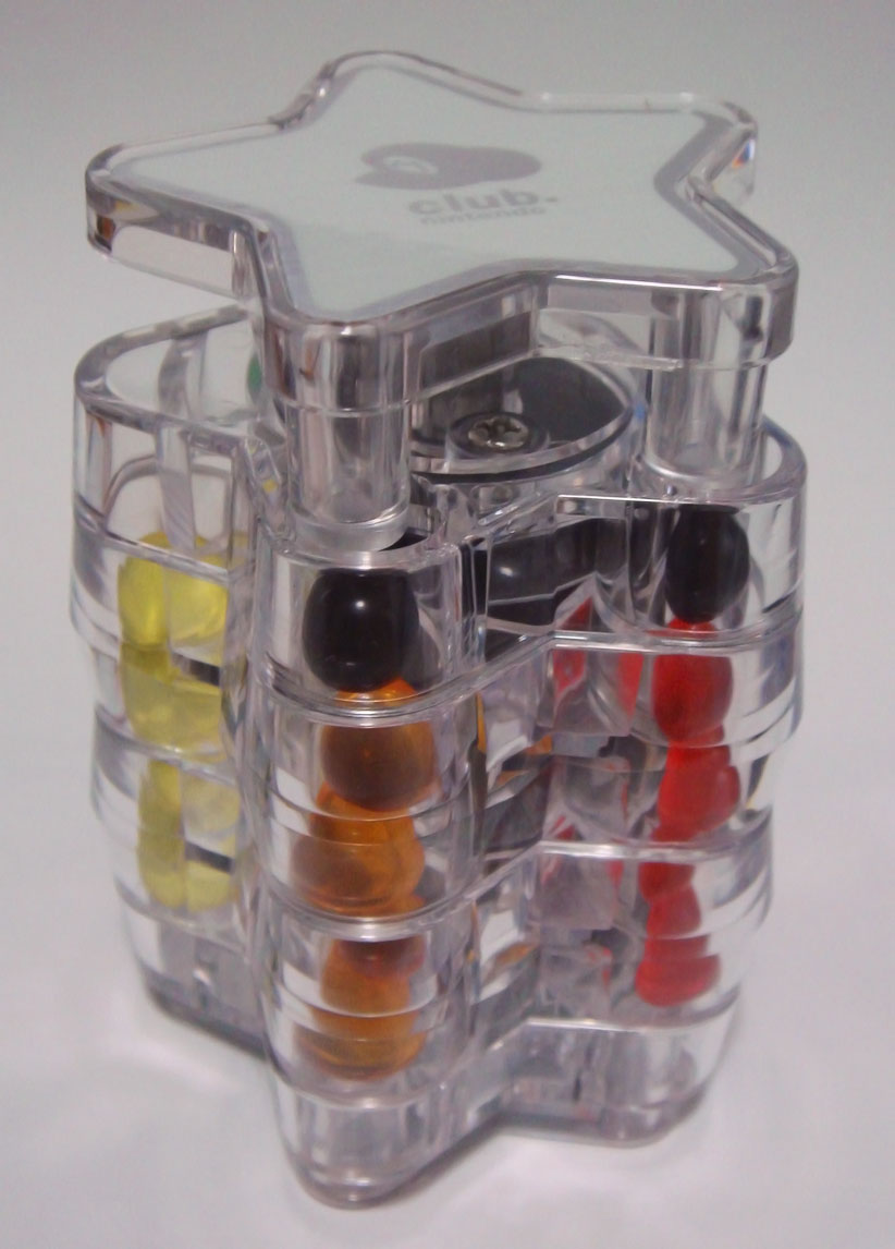 "Star Ten Billion" is the same as "Nintendo tumbler puzzle". It is being offered by the Club Nintendo Japan limitation.